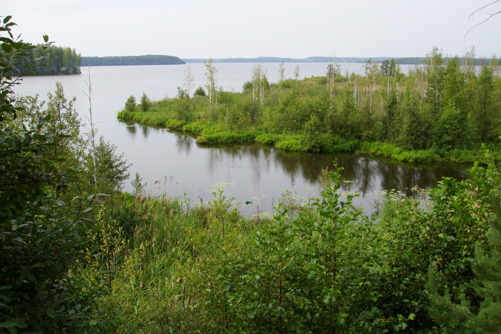 Nyomda river. Russian Rainbow Gathering. Nezhitino, August 2005